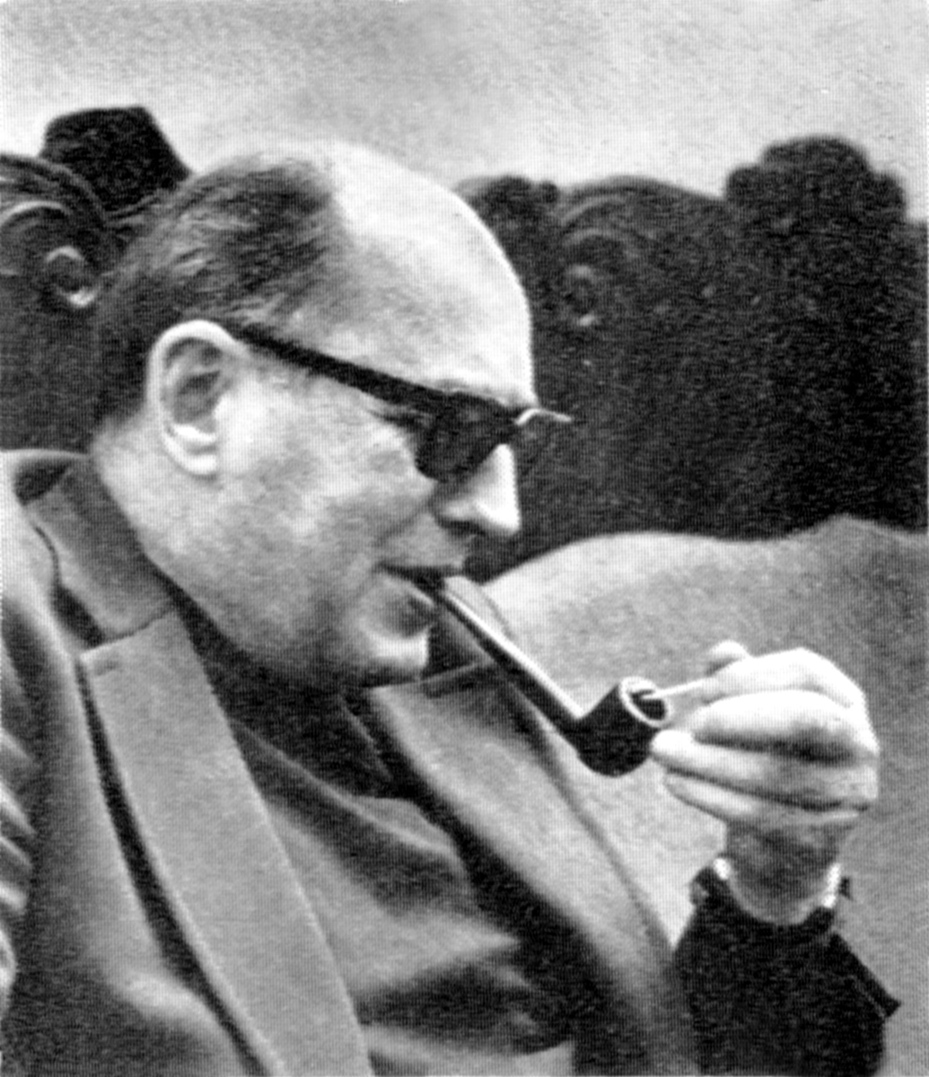 Jerzy S. Stawiński, Polish writer